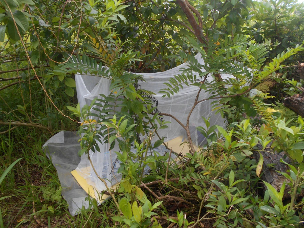 Photo taken on Eua Island